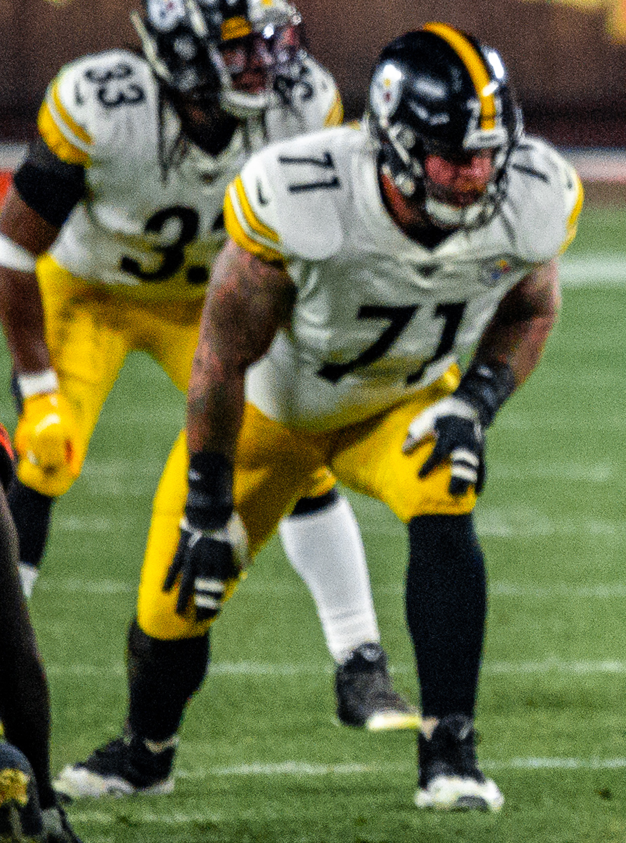 Steelers vs Browns 2019